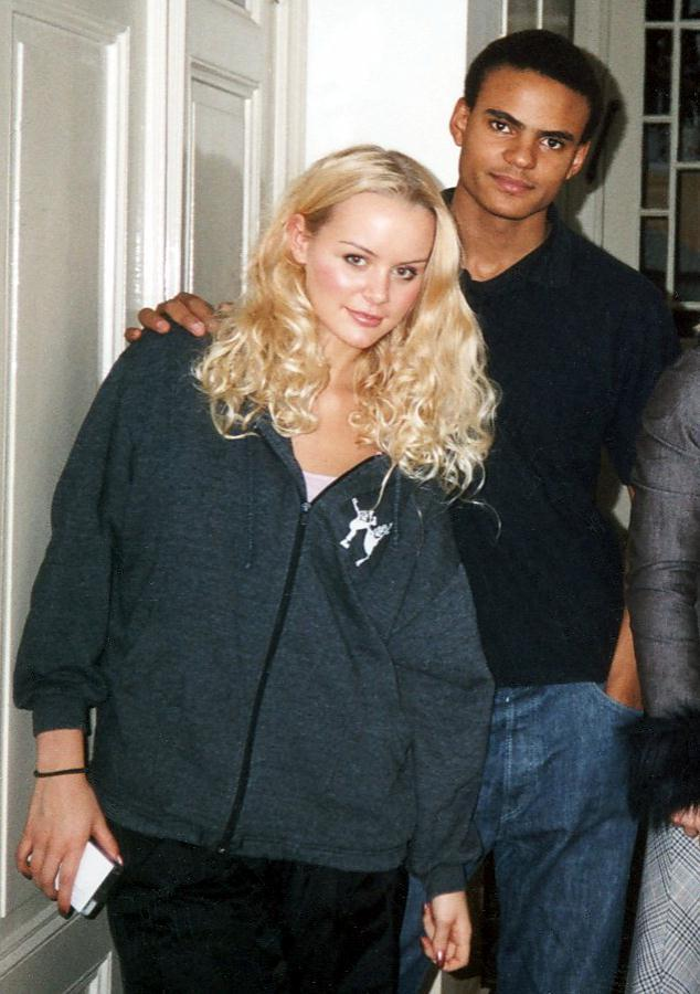 Helena Mattsson & Mohombi Moupondo after a Wild Side Story rehearsal, as released by image creator F.U.S.I.A.Place: F.U.S.I.A., Hökens gata 3, Stockholm, Sweden